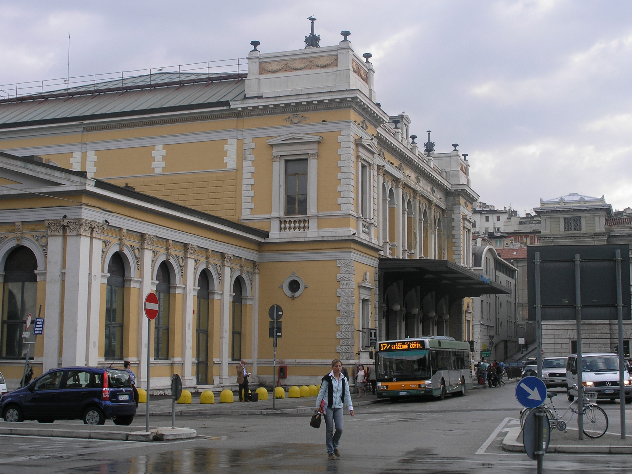 Railway station in Trieste, Italy